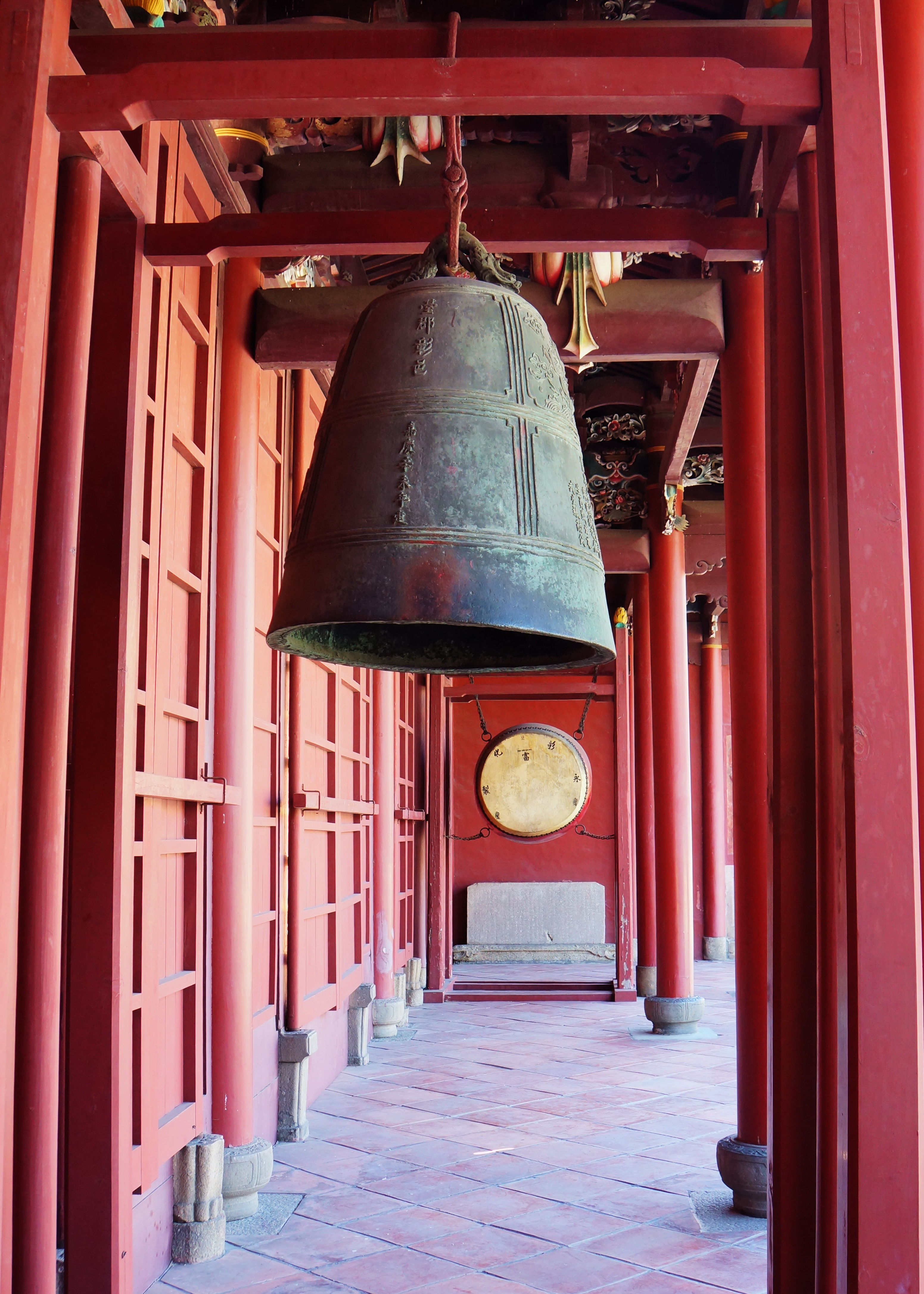 彰化孔廟戟門鐘鼓 Bell and Drum at the Ji Gate of Zhanghua Confucius Temple